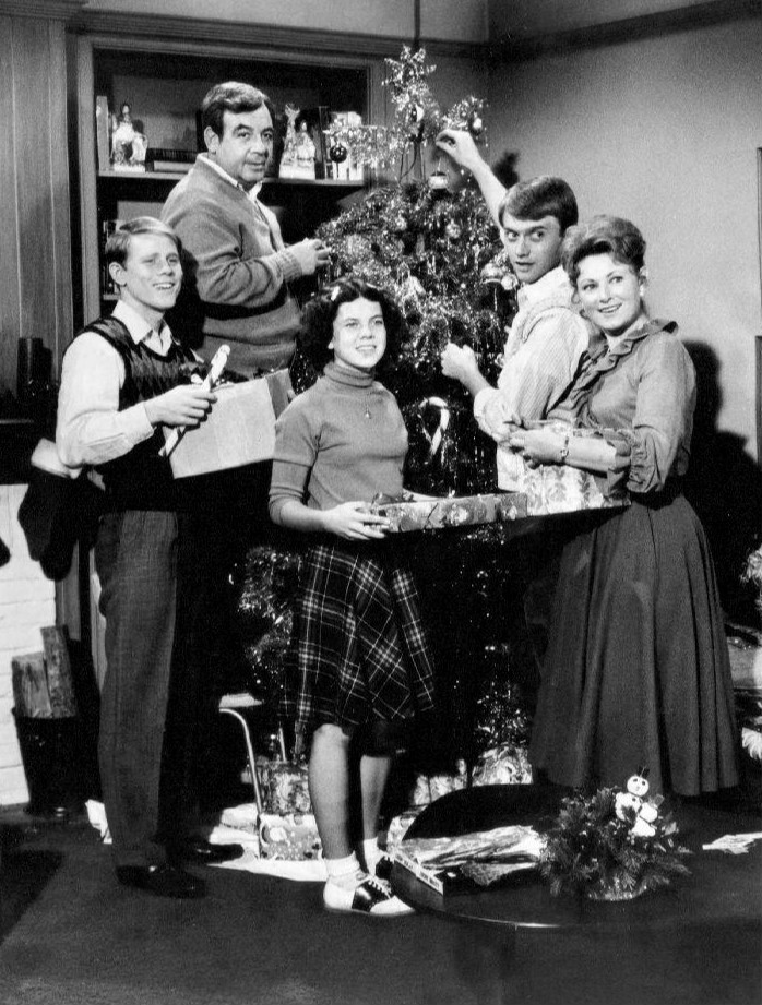 Publicity photo of the Cunningham family from the television program Happy Days. The young man standing with Marion Ross is Randolph Roberts, who played the role of the Cunningham's older son, Chuck. He was not a regular on the series.